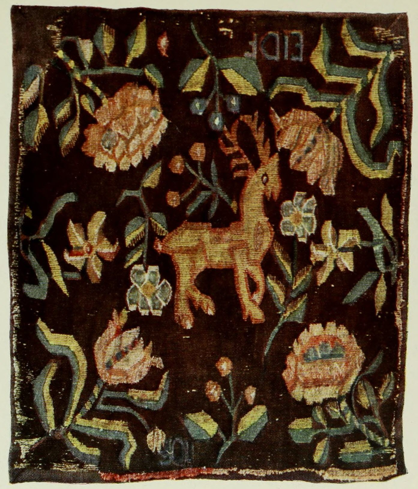 [Detail] Swedish textiles (1925) In the Mary Ann Beinecke Decorative Art Collection. Sterling and Francine Clark Art Institute Library.